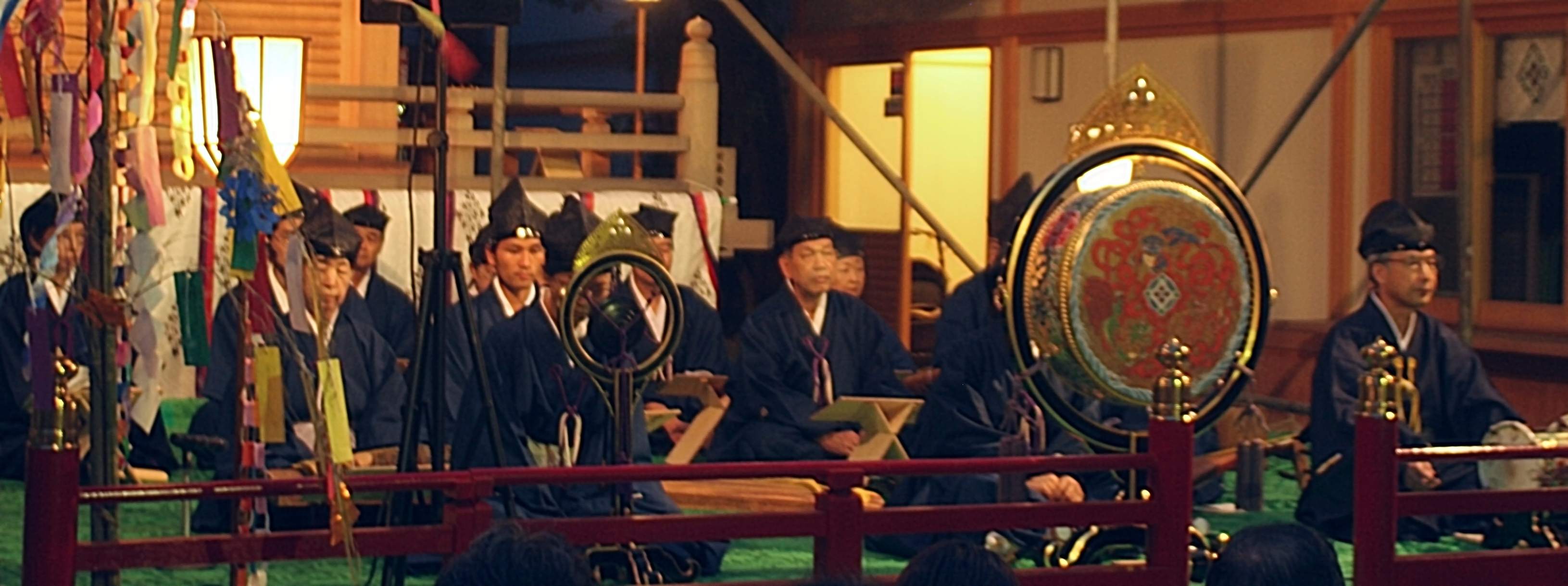 Gagaku Performance at the Tanabata Matsuri at morooka kumano jinja ( 師岡熊野神社 ) in Okurayama, Yokohama, Kanagawa, Japan. Sorry for poor quality